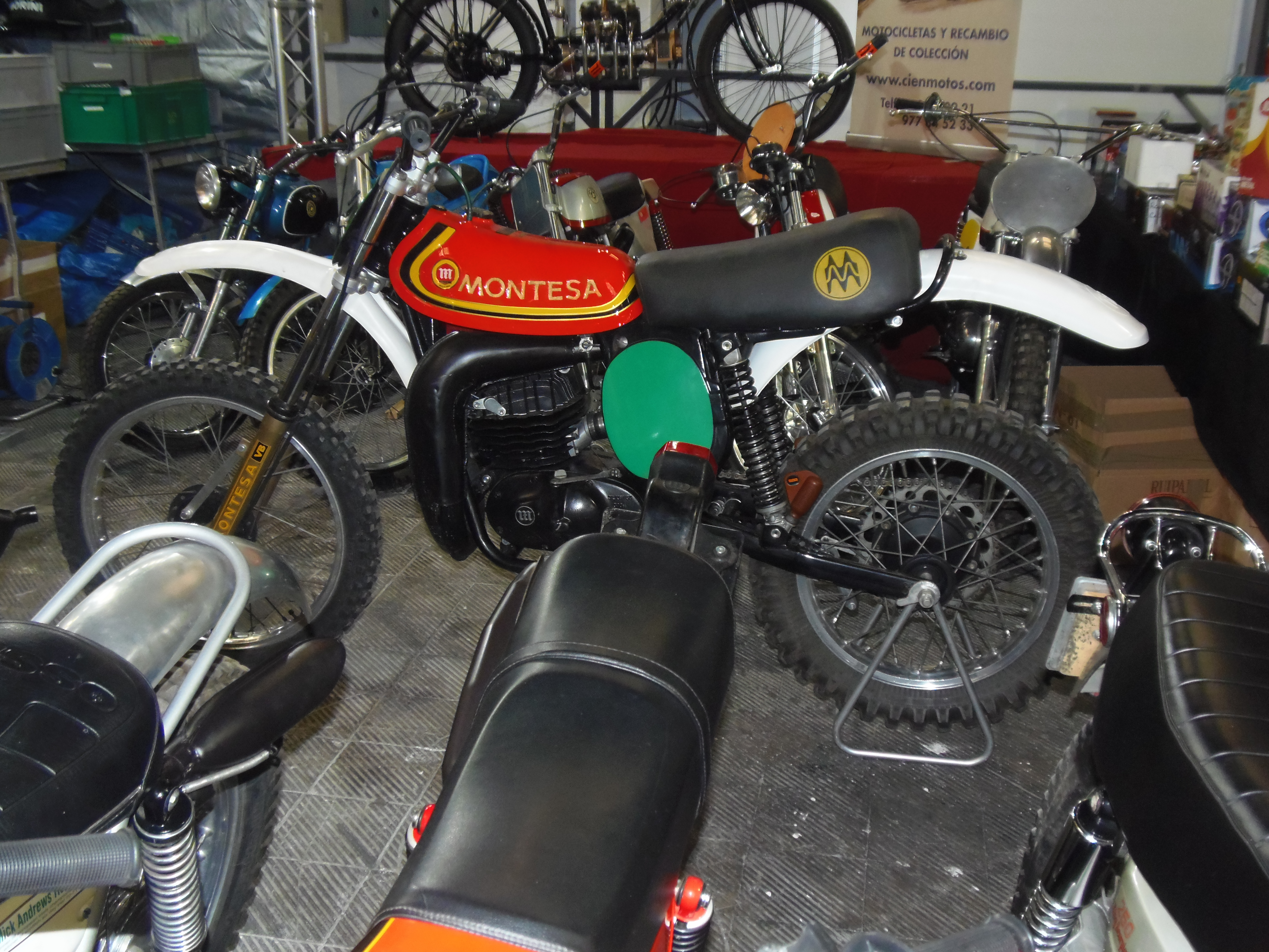 Montesa Cappra VB 250, 1976